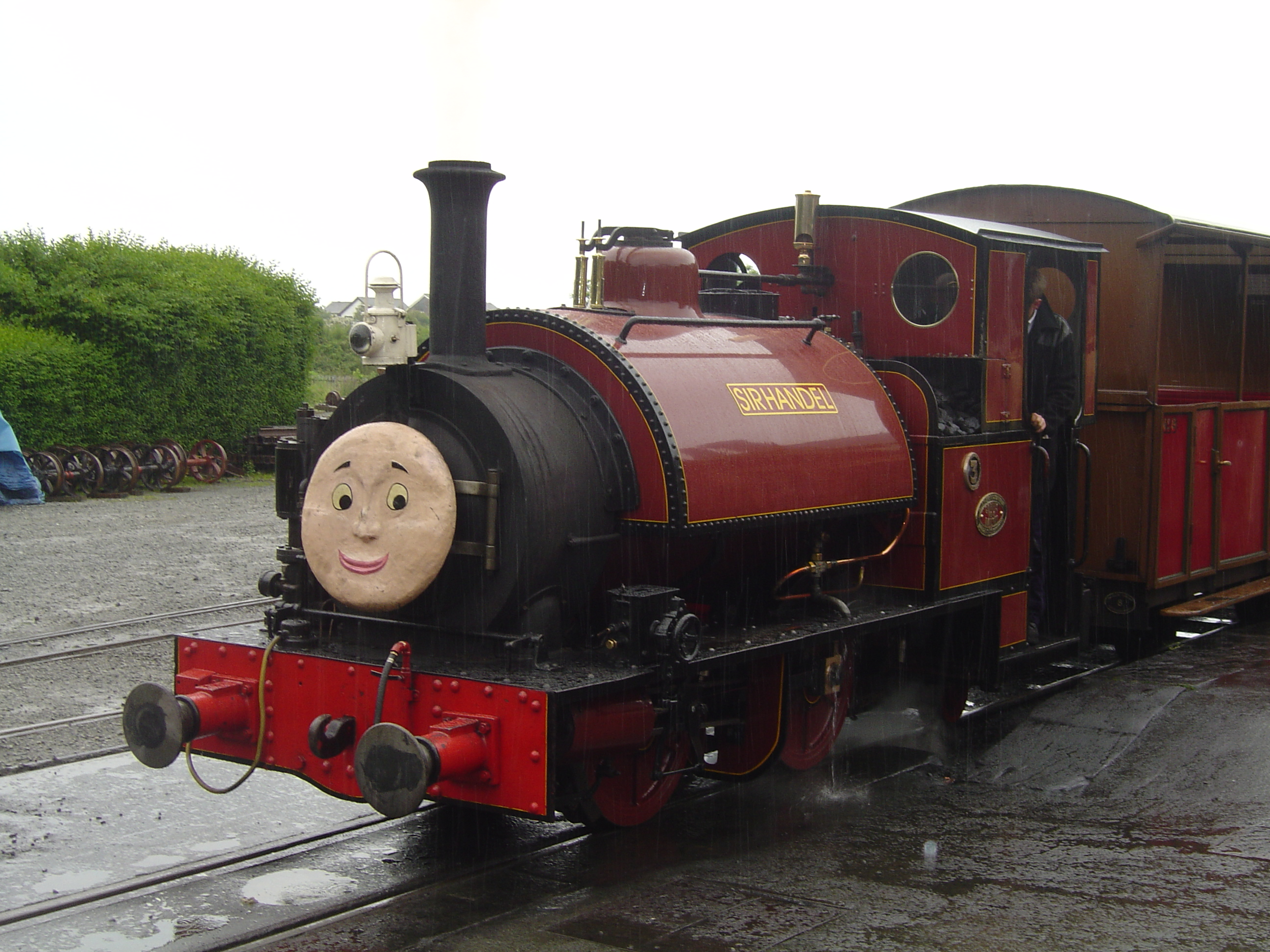 Talyllyn Railway Number 3 in the guise of Sir Handel at Tywyn Wharf